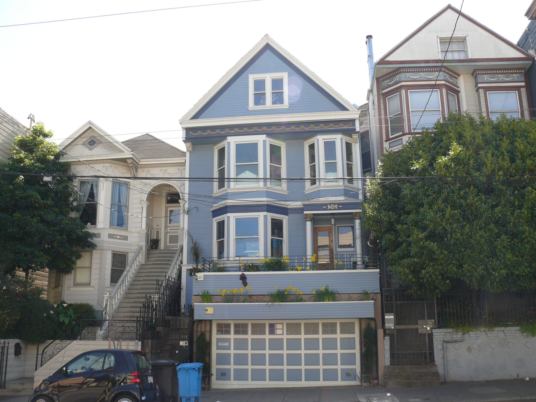 The blue house cited in the song by Maxime Le Forestier, at 3841 18th Street in San Francisco (Californie, États-Unis).